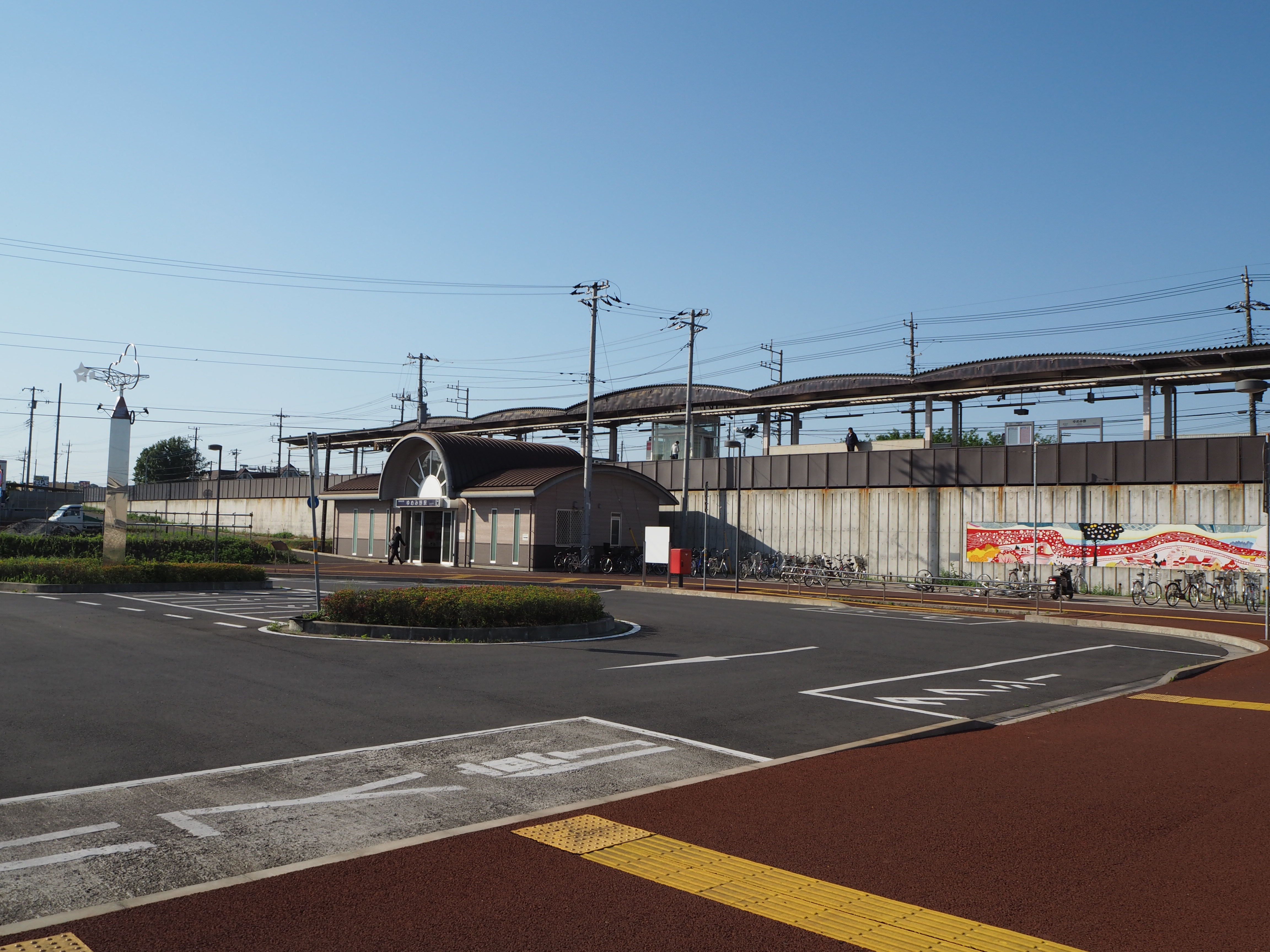 Yumemino Station